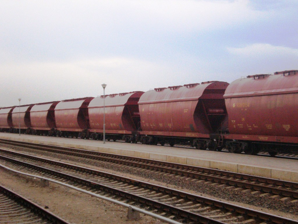 Train in Jonava, Lithuania